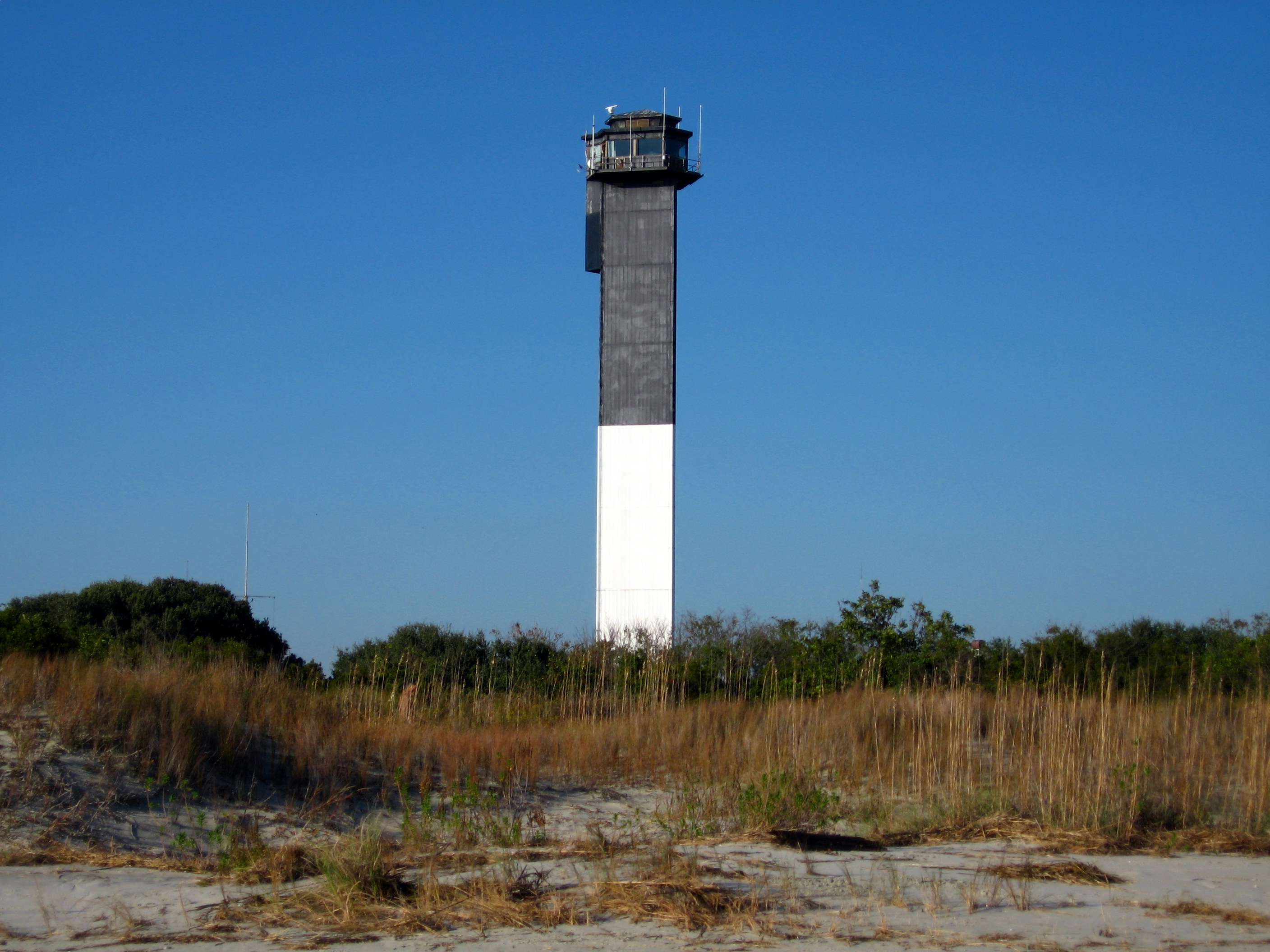 Lighthouse on Sullivan's Island, SC. This is the most modern lighthouse in South Carolina. Photo taken Nov. 11, 2006. The dunes are severely depleted after several coastal storms.